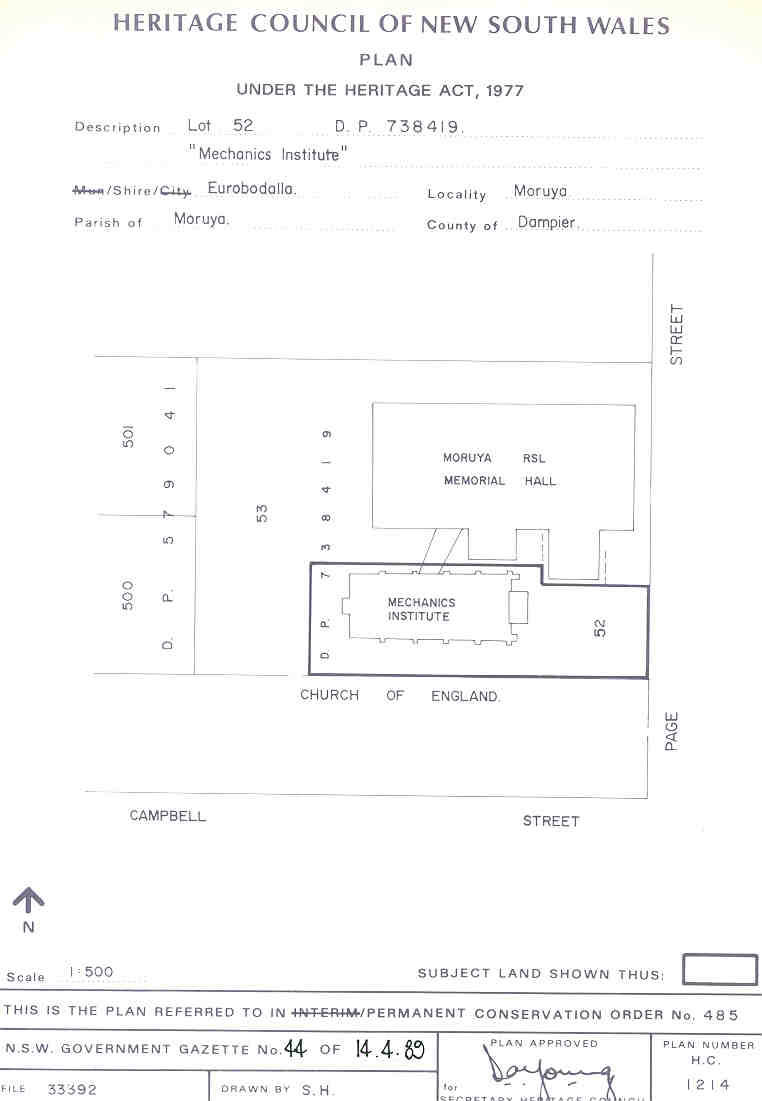 Moruya Mechanics' Institute: PCO Plan Number 485